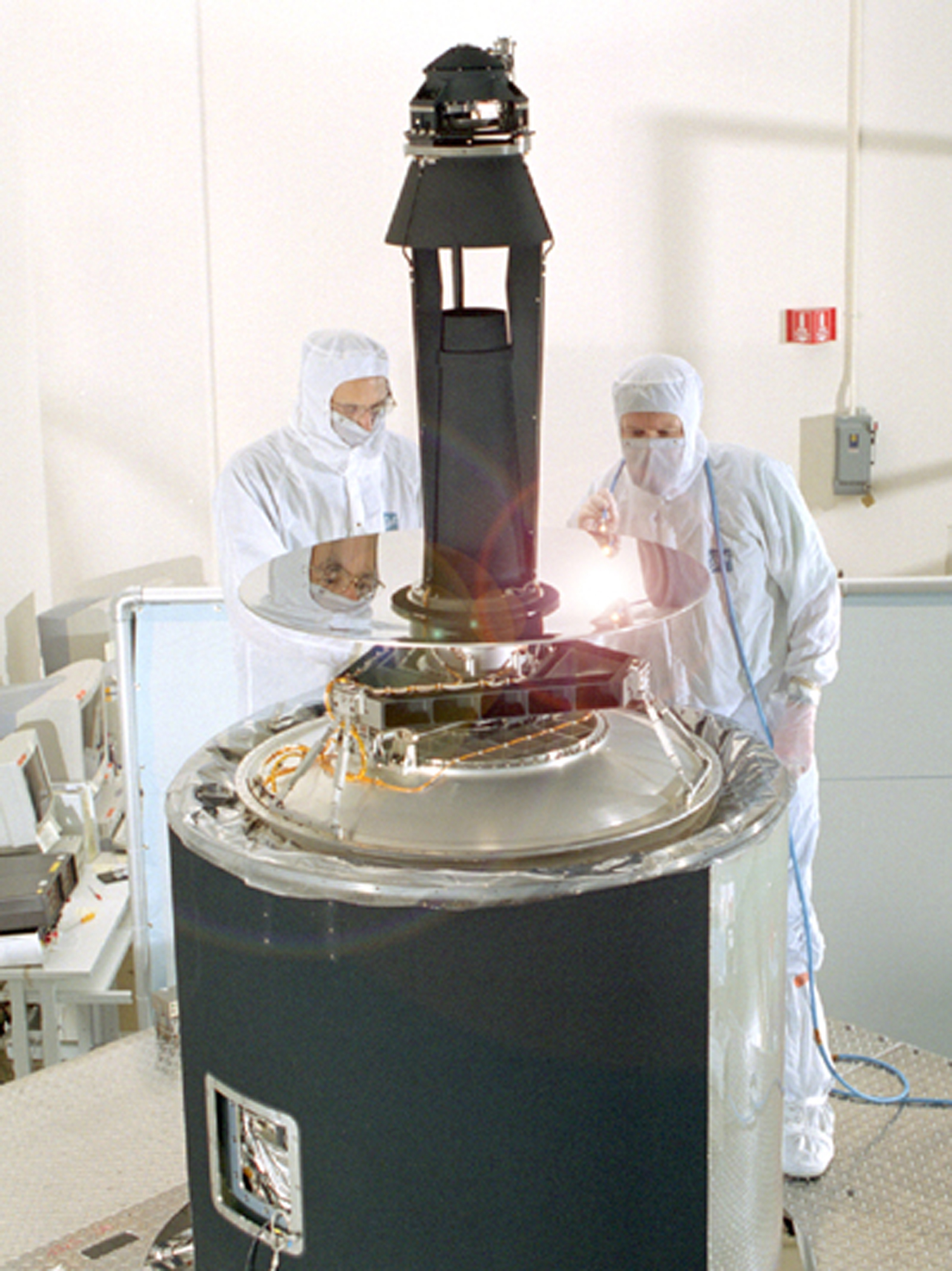 The telescope during CTA integration.